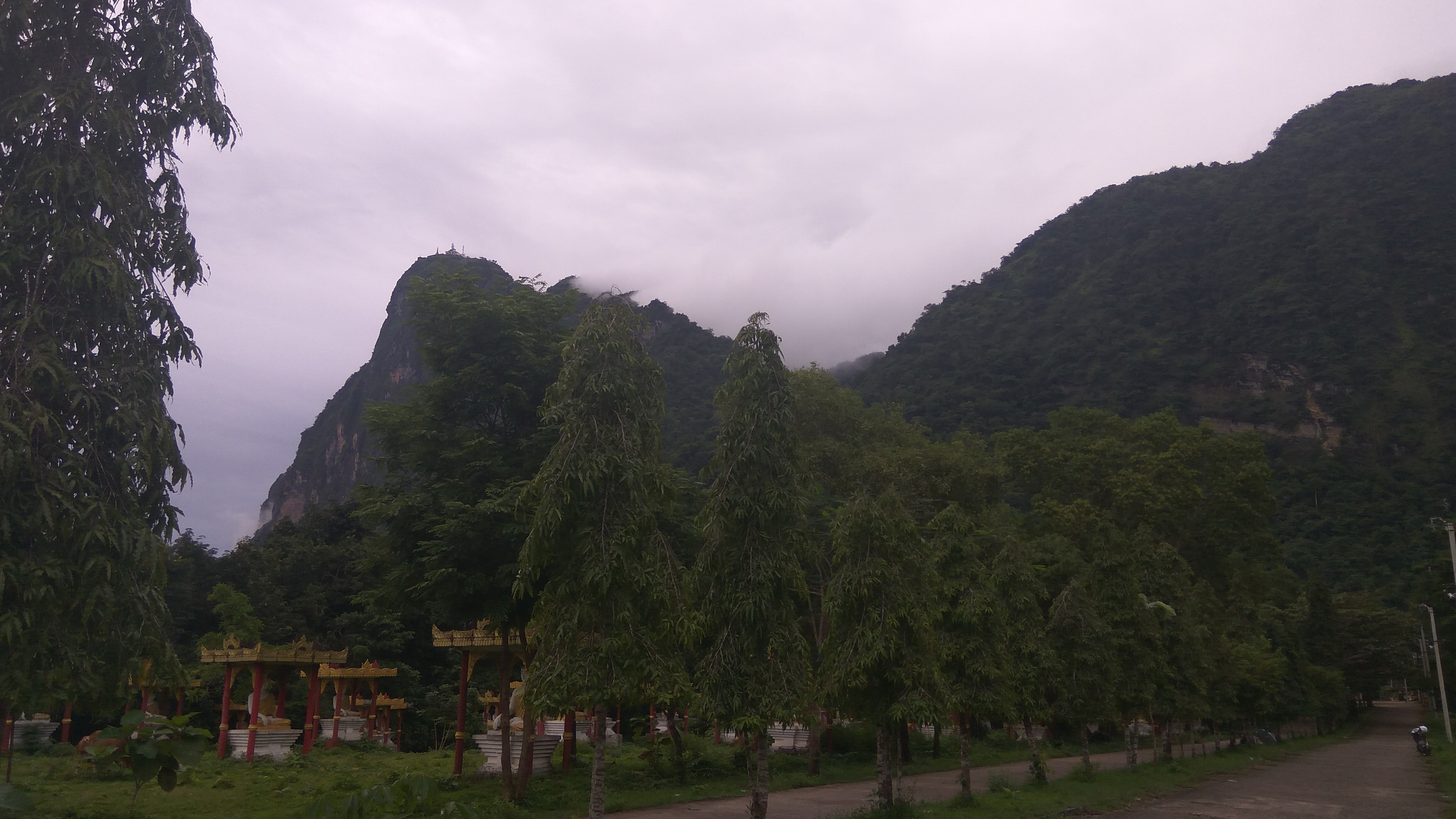 Foot of ZawGaBin Mountain, Hpa-An, Kayin State မြန်မာဘာသာ: ဇွဲကပင်တောင်ခြေ၊ ဘားအံ၊ ကရင်ပြည်နယ်